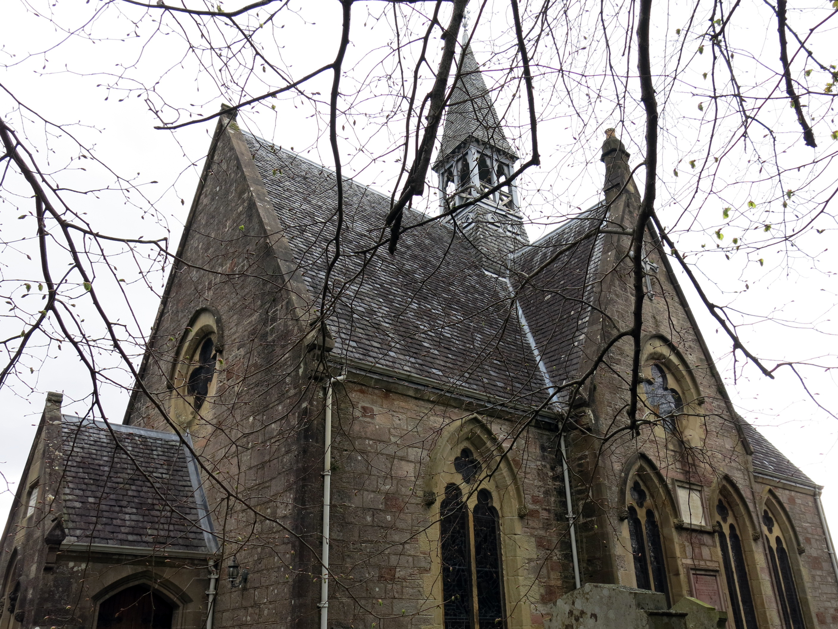 Luss, St Kessog's Church And Churchyard.